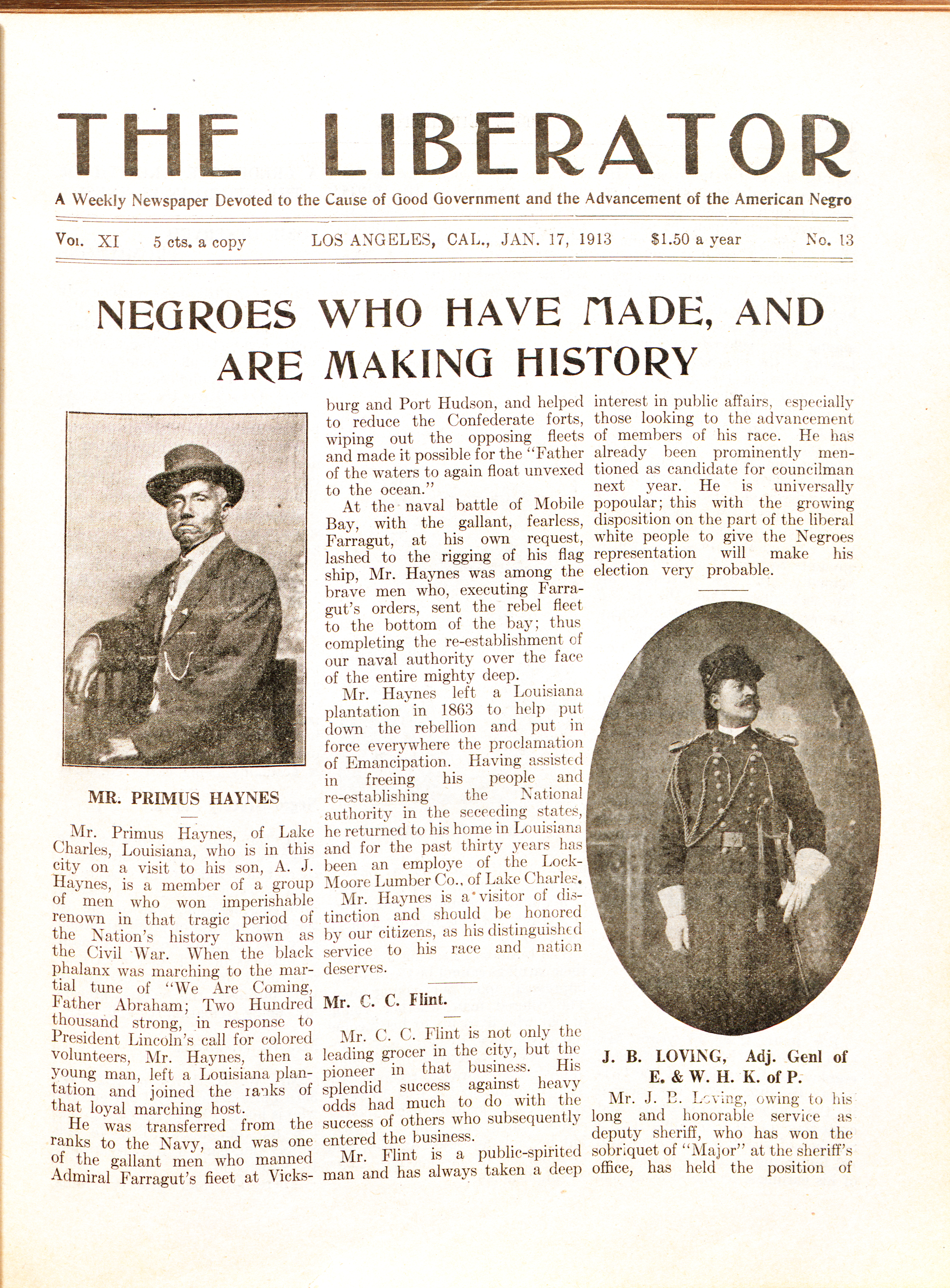 A preliminary scan of The Liberator Volume 11, Issue 13, 1913-01-17, p. 02 made by the Los Angeles Public Library from the Edmonds Family Collection ( for the 2018 Los Angeles City Hall Exhibit, "Write in America," presented in part by the office of Los Angeles City Council President, Herb Wesson. This article is significant because it illustrates the Liberator's support of African American businesses. Publication Information The Liberator. Publisher: Los Angeles, Calif. : Liberator Pub. Co., [189-]-1902. Edition/Format: Journal, magazine : Periodical : English Subjects African Americans -- California -- Los Angeles -- Periodicals. African Americans. California -- Los Angeles. OCLC record